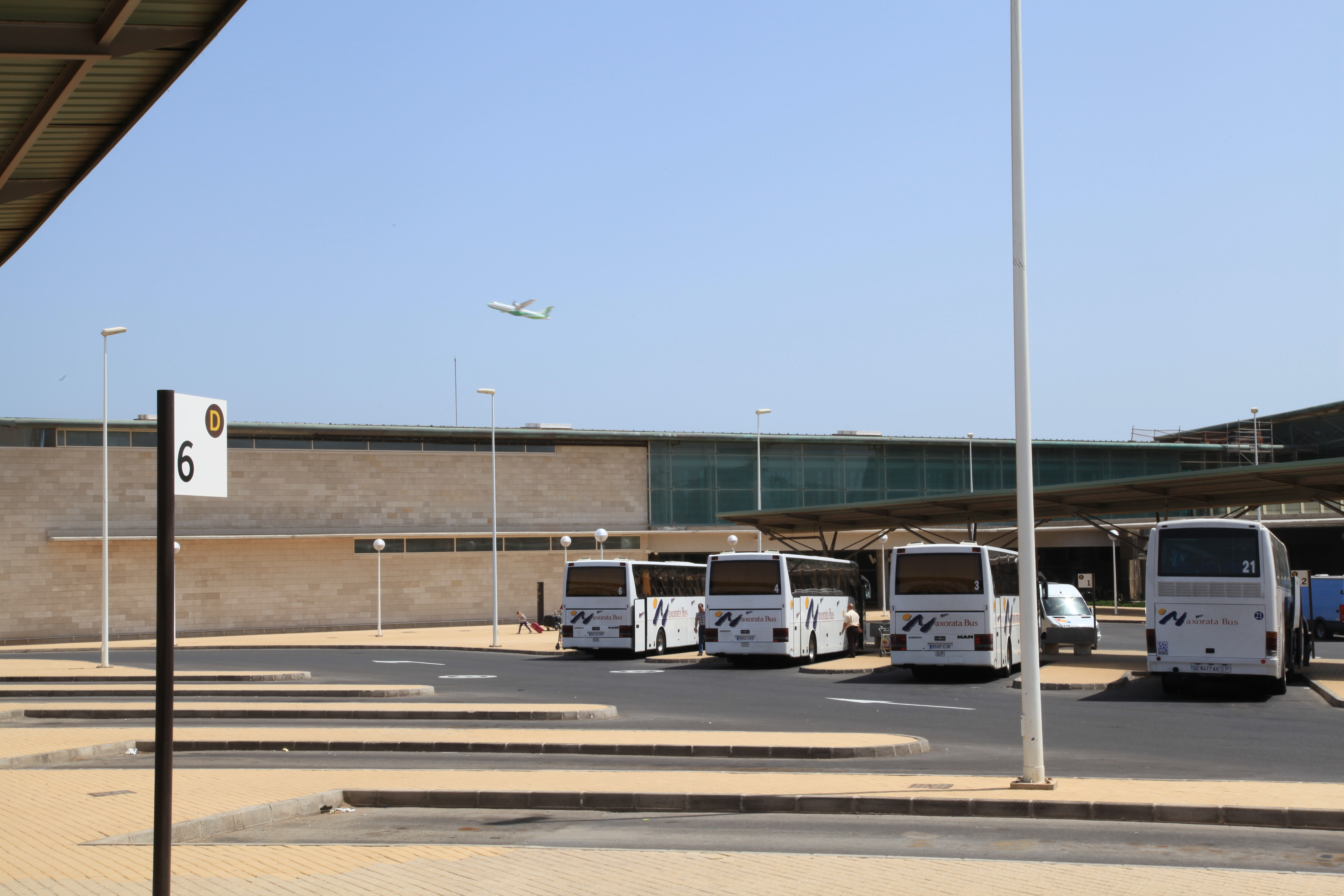 Bus station of the airport in Puerto del Rosario, Fuerteventura, Canary Islands